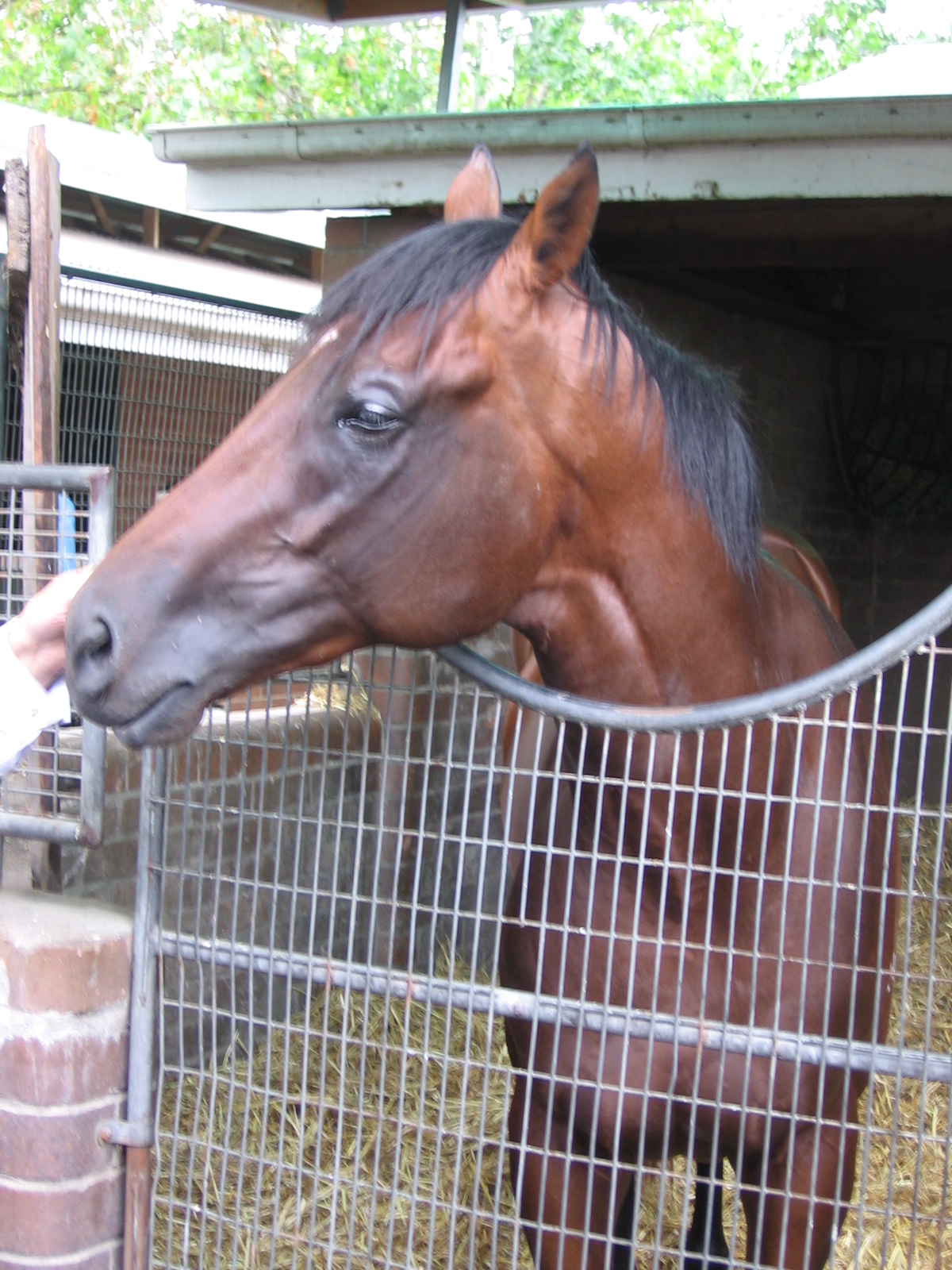 Sirmione at Bart cummings stables at Randwick